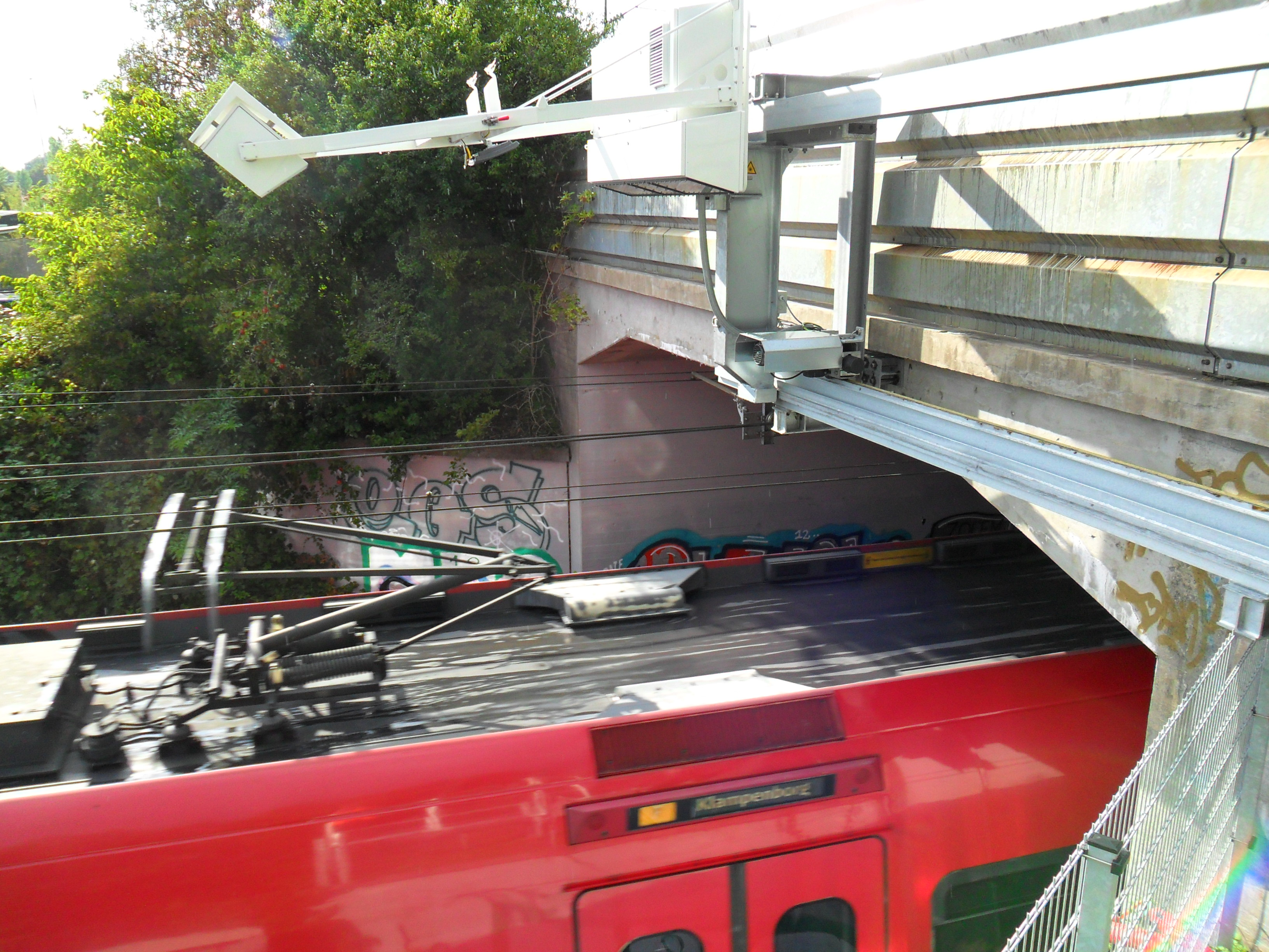 An automated scanner inspects the pantograph of a passing train. The inspection is done to prevent worn or damaged pantographs from tearing down the catenary line.